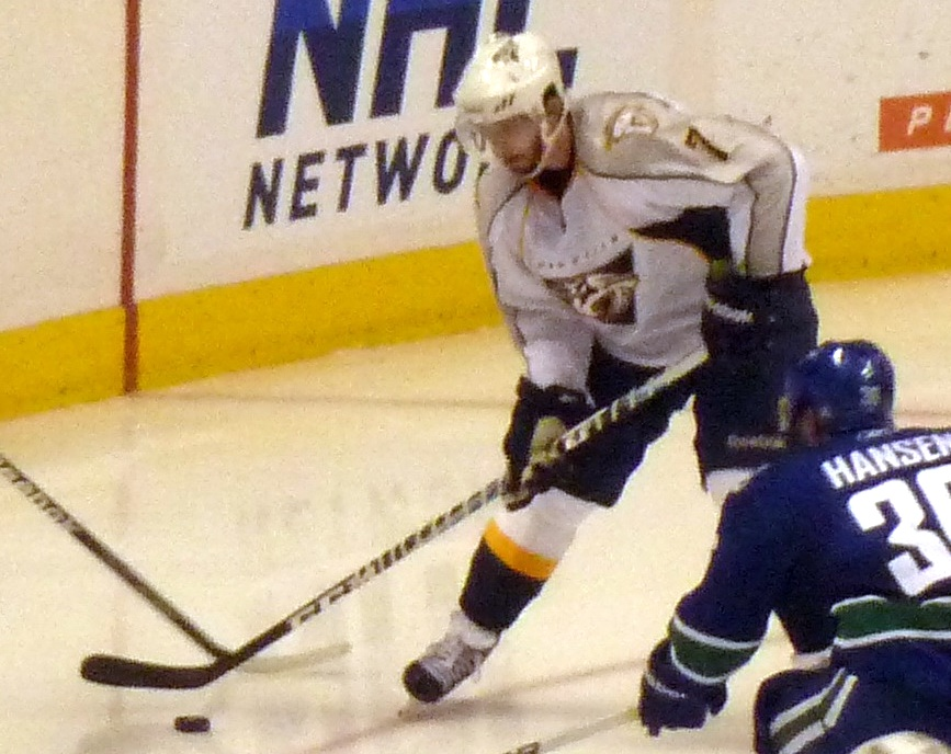 Nashville Predators defenceman Jonathon Blum during a playoff game against the Vancouver Canucks on April 30, 2011.